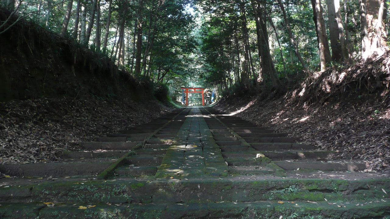 Kirishimamine Jinja (Kobayashi City, Miyazaki, Japan)